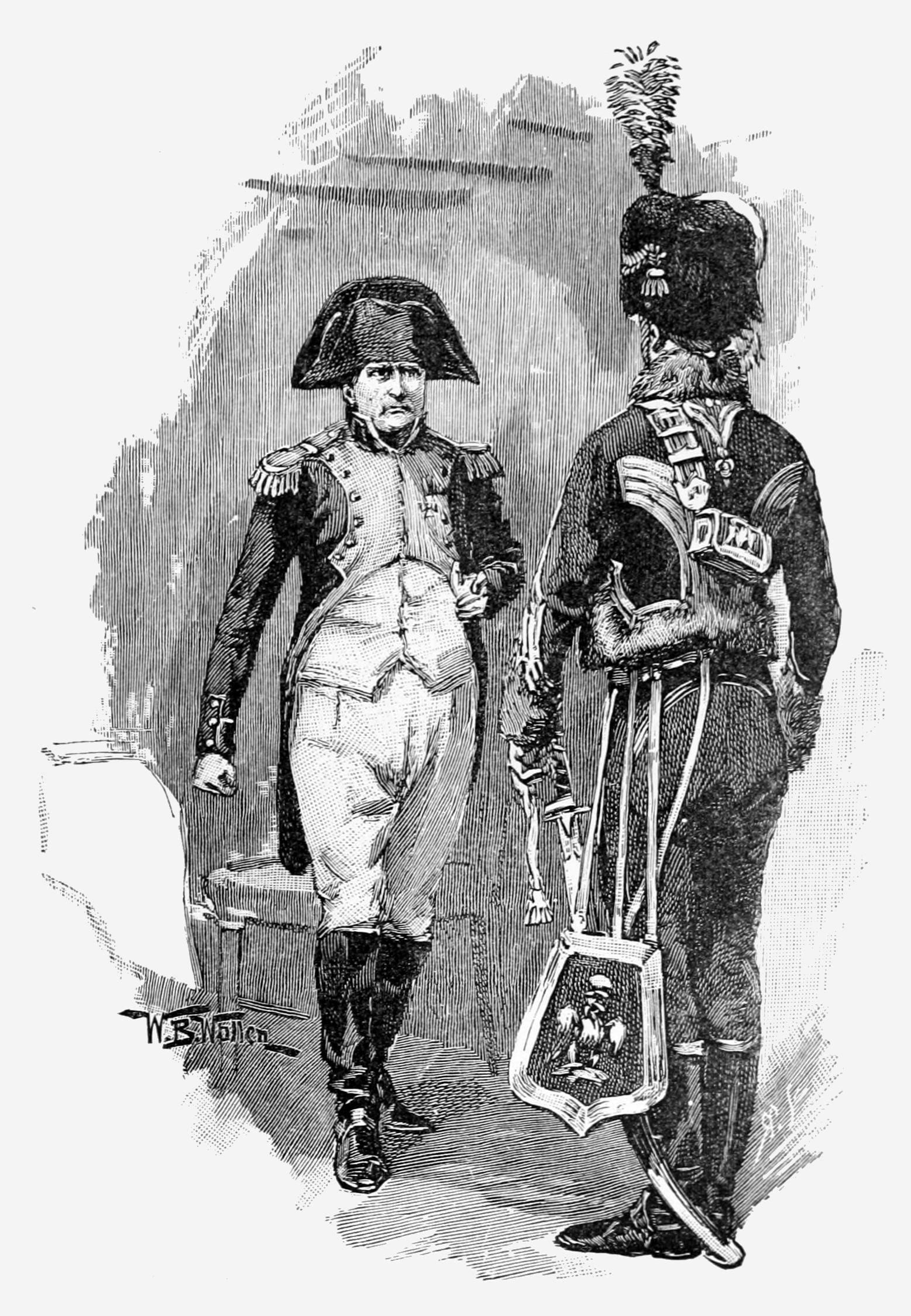 Plate of The Exploits of Brigadier Gerard